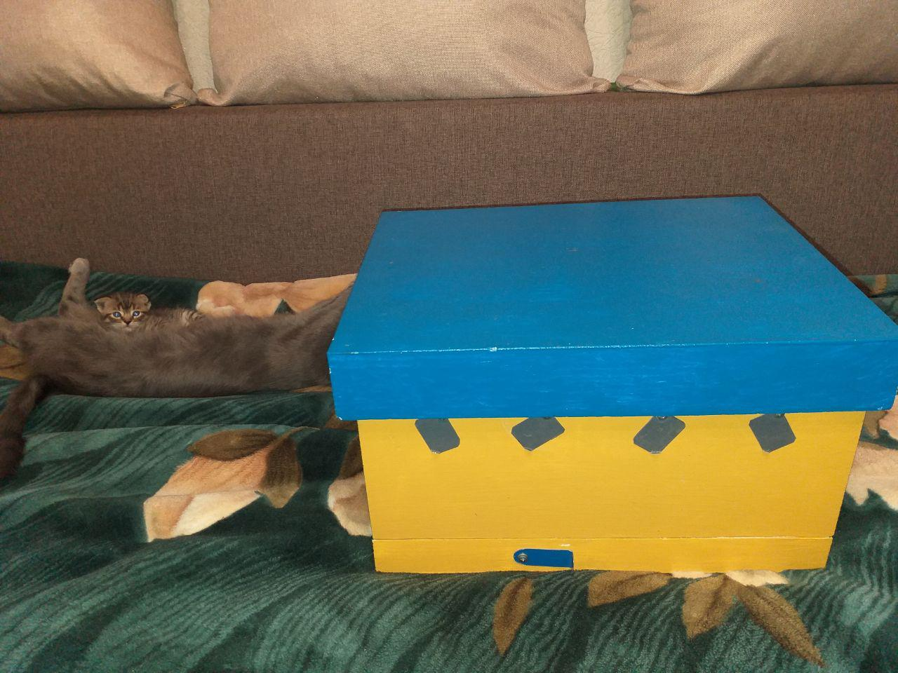 Нуклеус 4 місний, ппу зовнішній вигляд